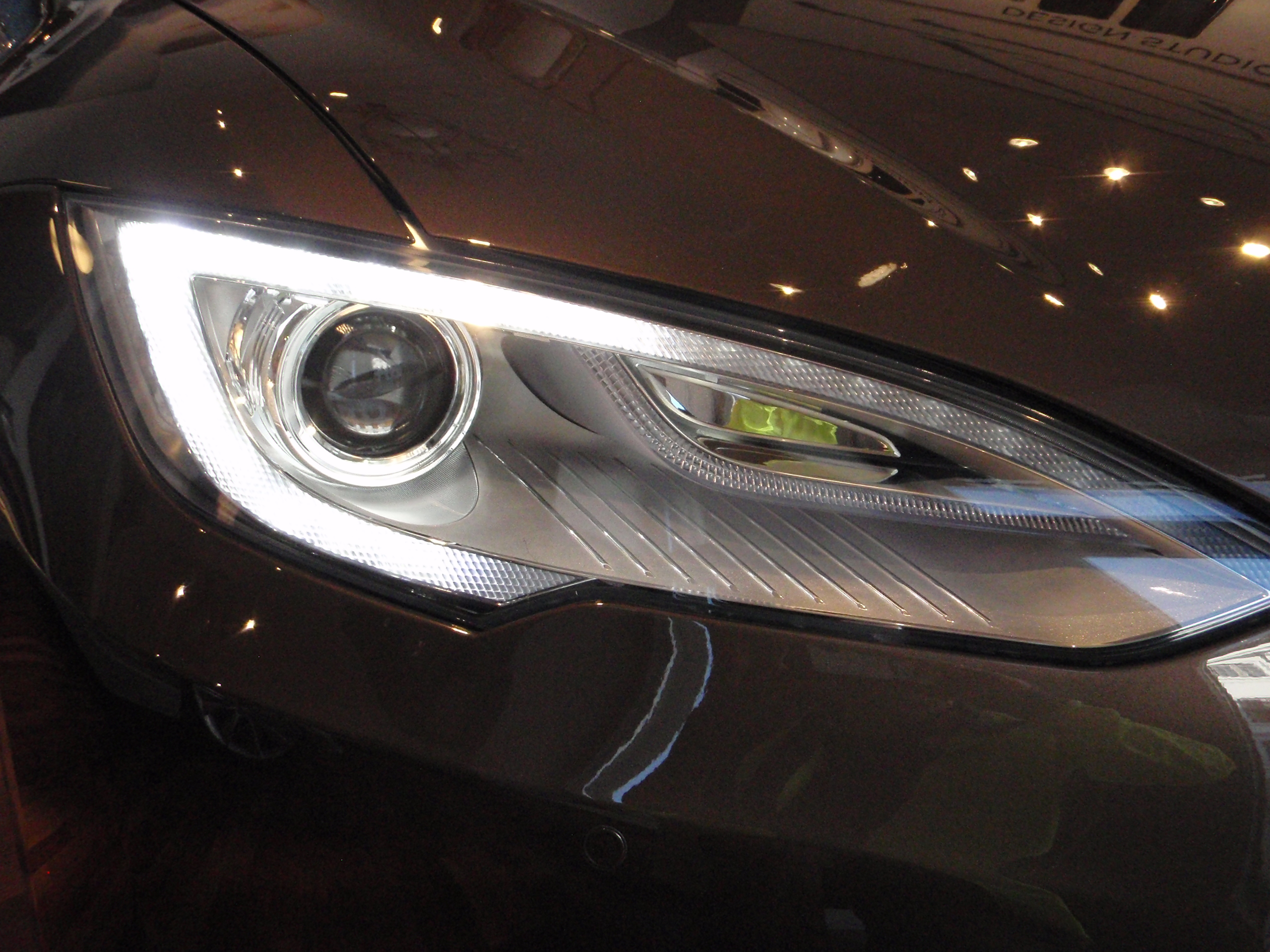 Tesla Model S headlamp from a 85 kWh version displayed in the Copenhagen Tesla Store